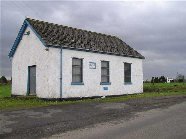 O'Neill Memorial Hall Fenagh LOL is located at Dunnygarran and was built in 1926